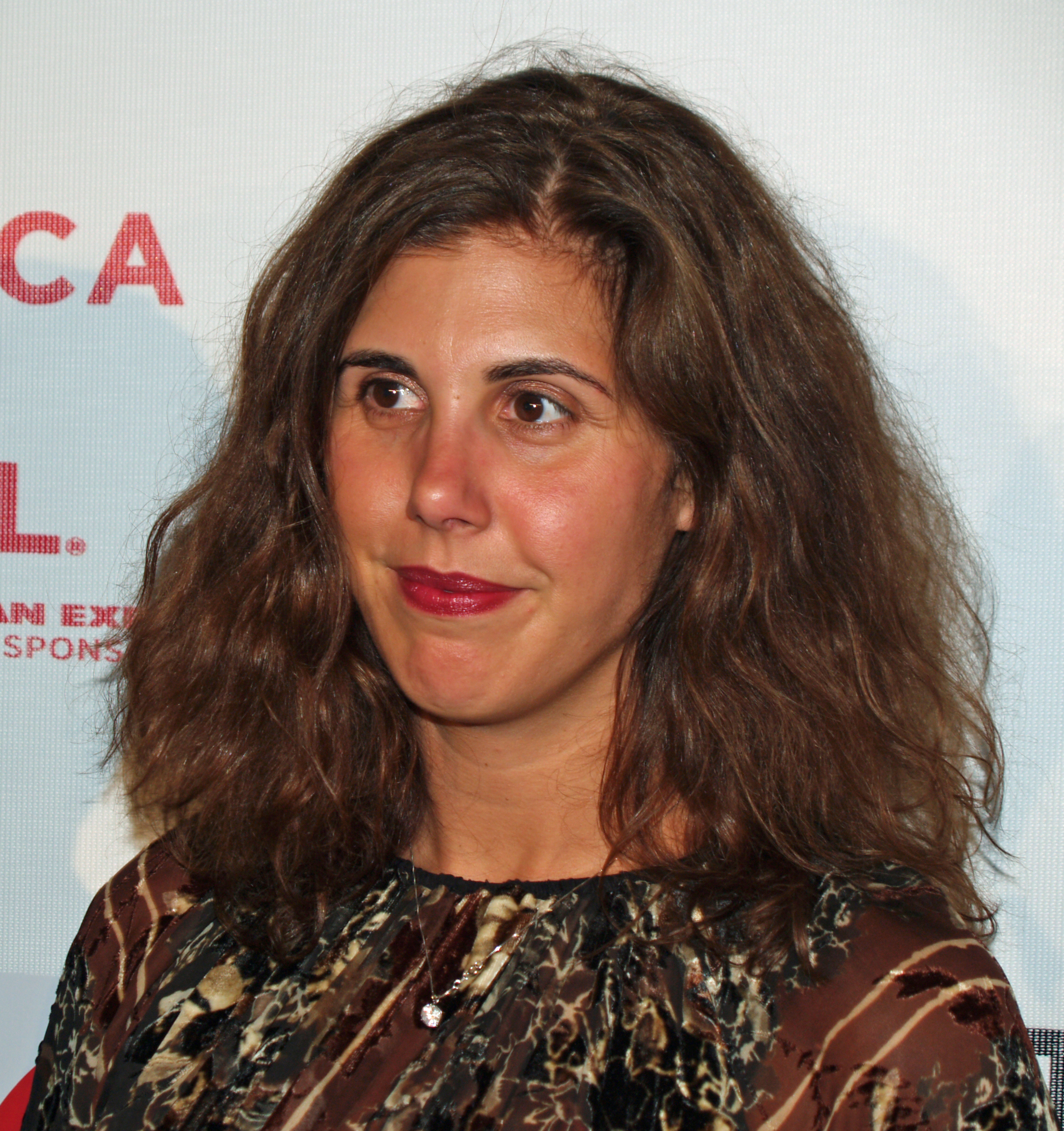 Alexandra Patsavas at Webster Hall in New York City for the 2008 Tribeca Film Festival.